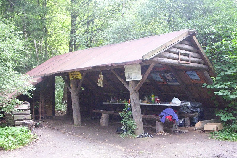 Umbrella roof in tent base in Regetów, Poland.